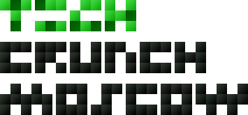 TechCrunch Moscow 2012 conference official logo